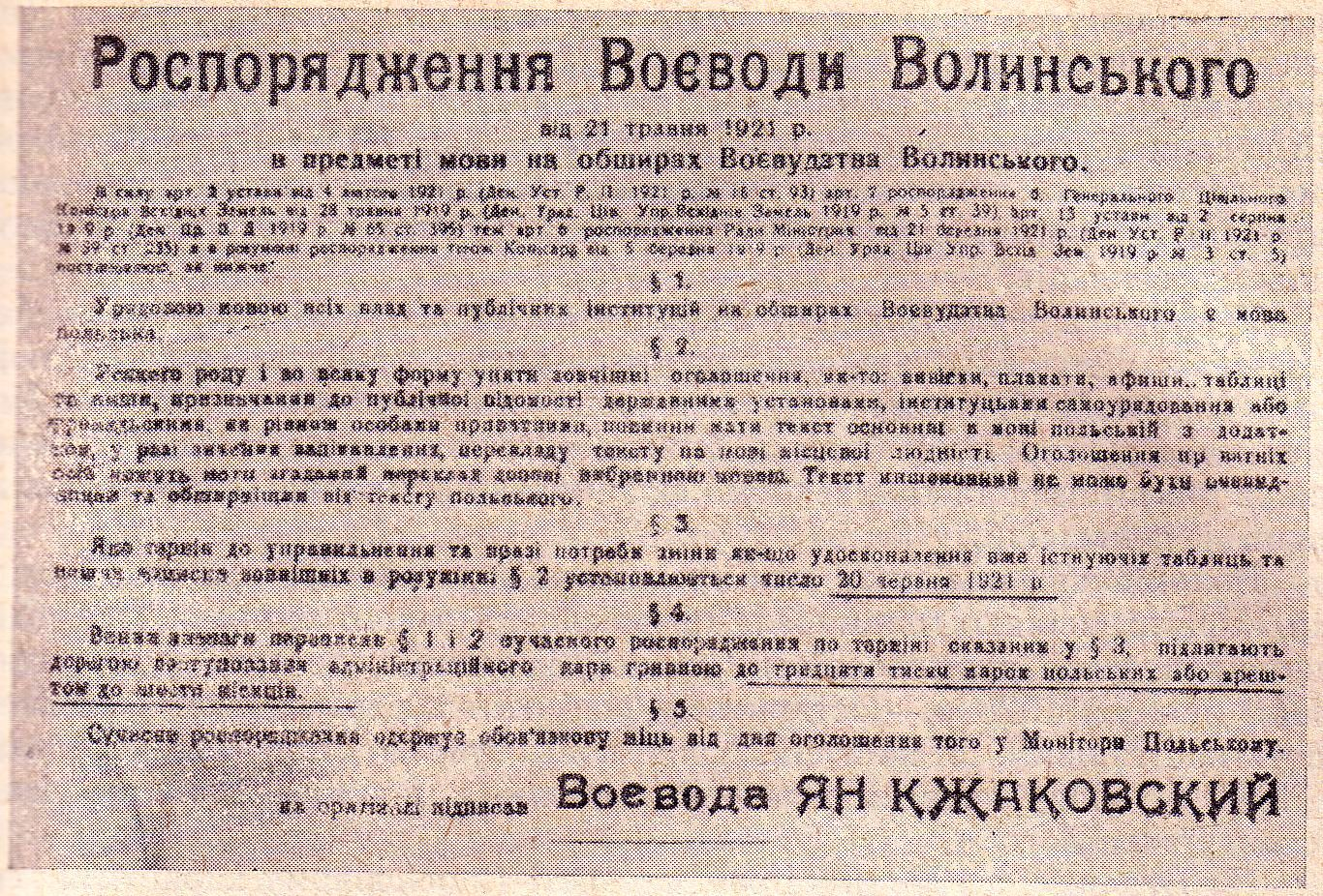 Decree of Voivod of Wołyń Voivodeship, Jan Krzakowski: "On language in the Volhynian Voyevodstvo" (Ukrainian: "В предметі мови на обширах Воєвудзтва Волинського"), establishing Polish as the official language in accordance with the 1921 Treaty of Riga ending the Polish–Soviet War in which the frontiers between Poland and the Soviet Russia had been defined. Written in Ukrainian.